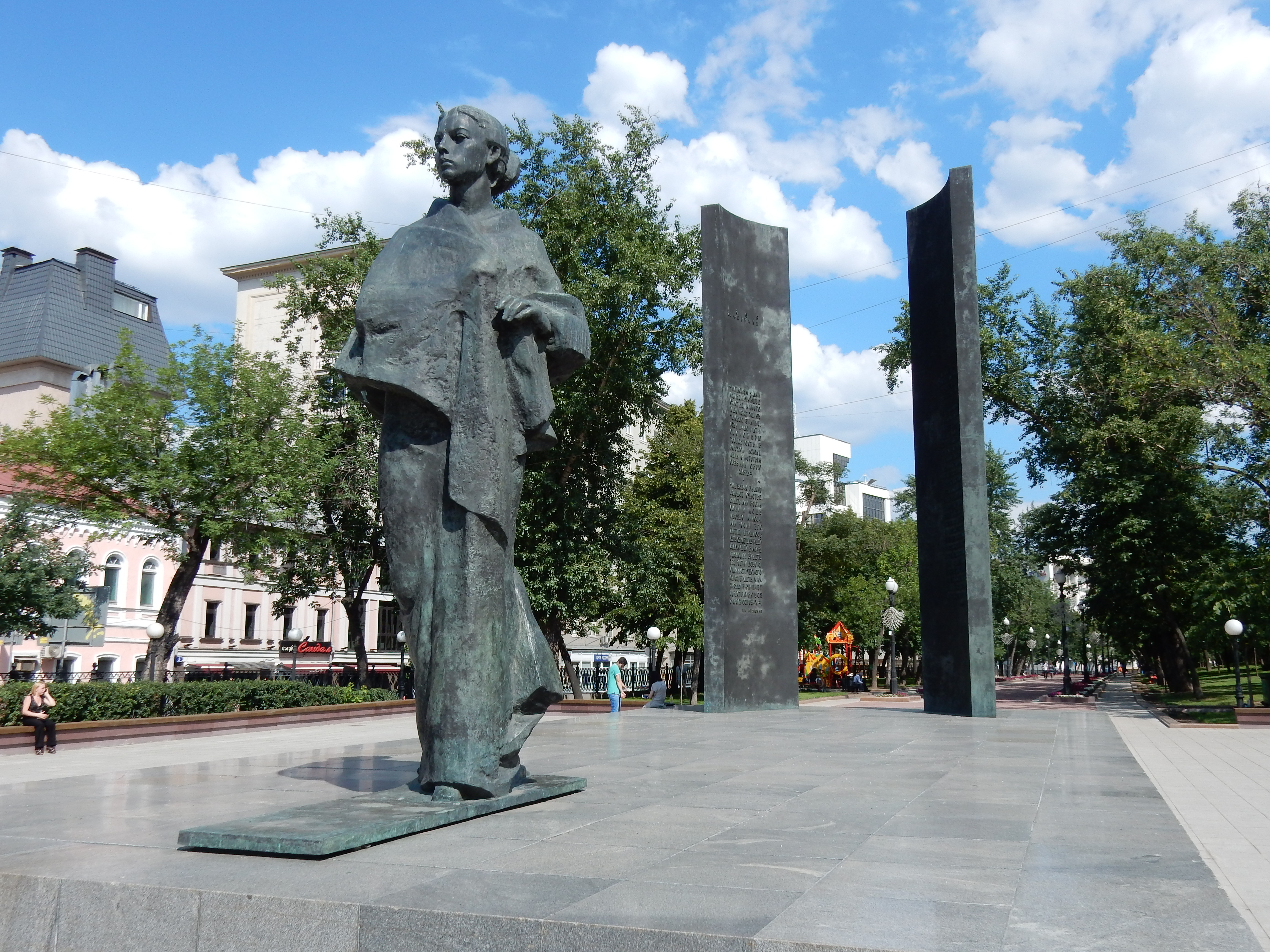 Moscow, Sretensky Boulevard. July 2014.